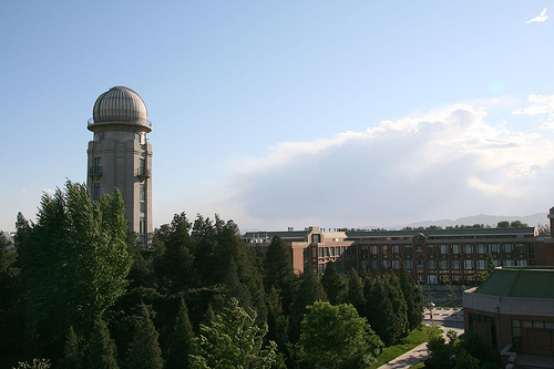 Tsinghua University is a well regarded university in mainland China. The Tsinghua Observatory is shown.